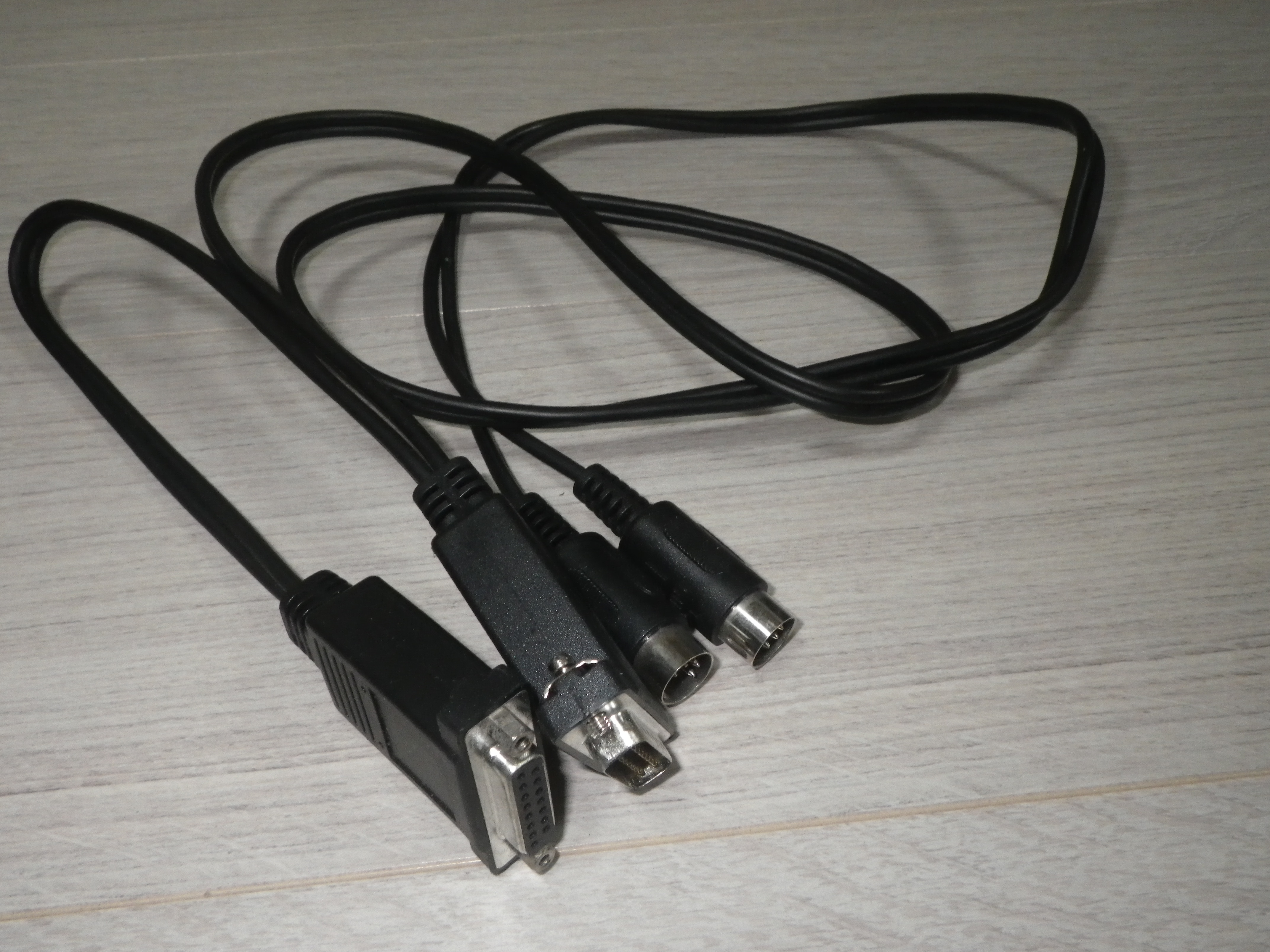 MIDI cable for game port